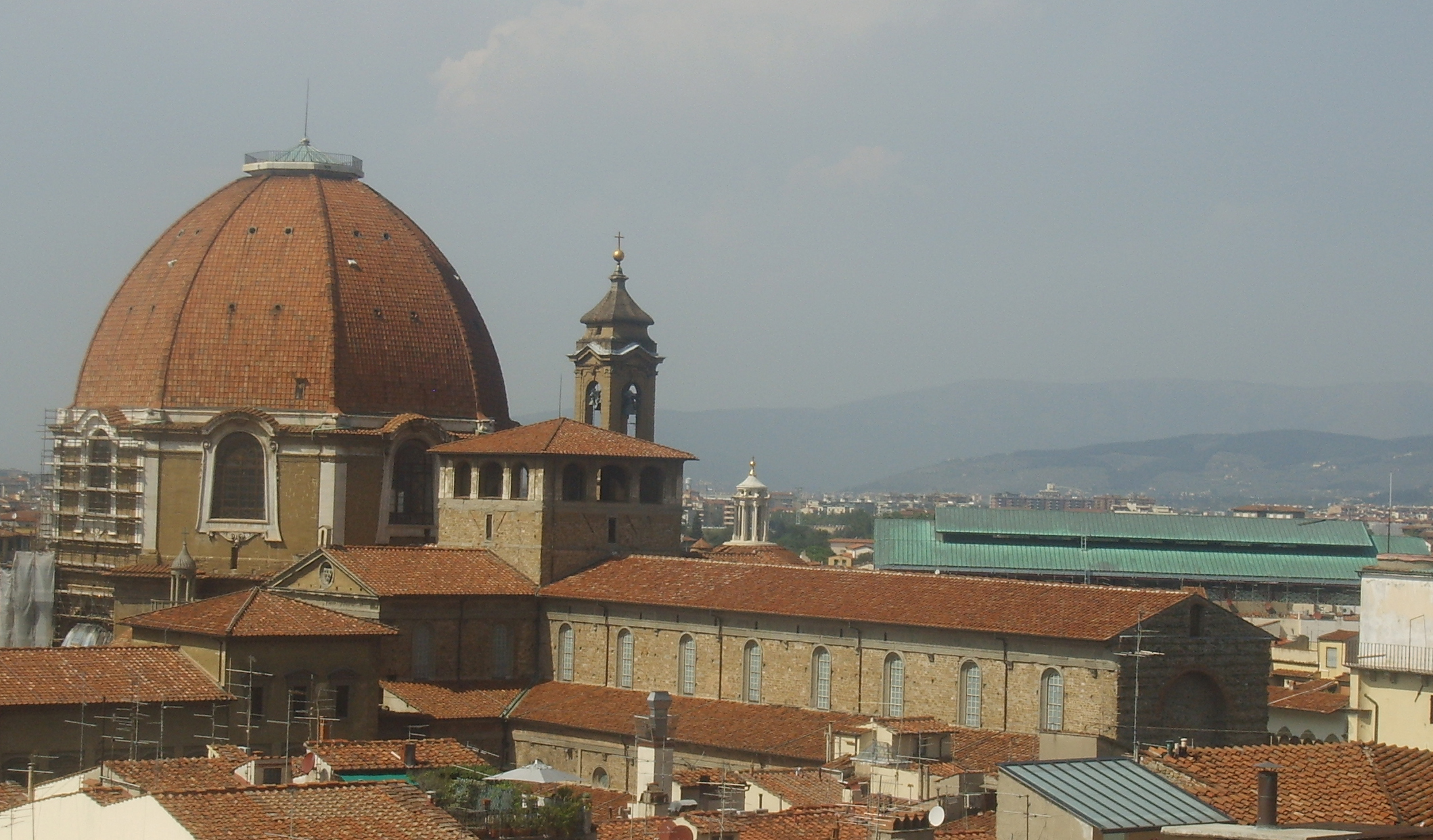 San Lorenzo in Florence, Italy. view